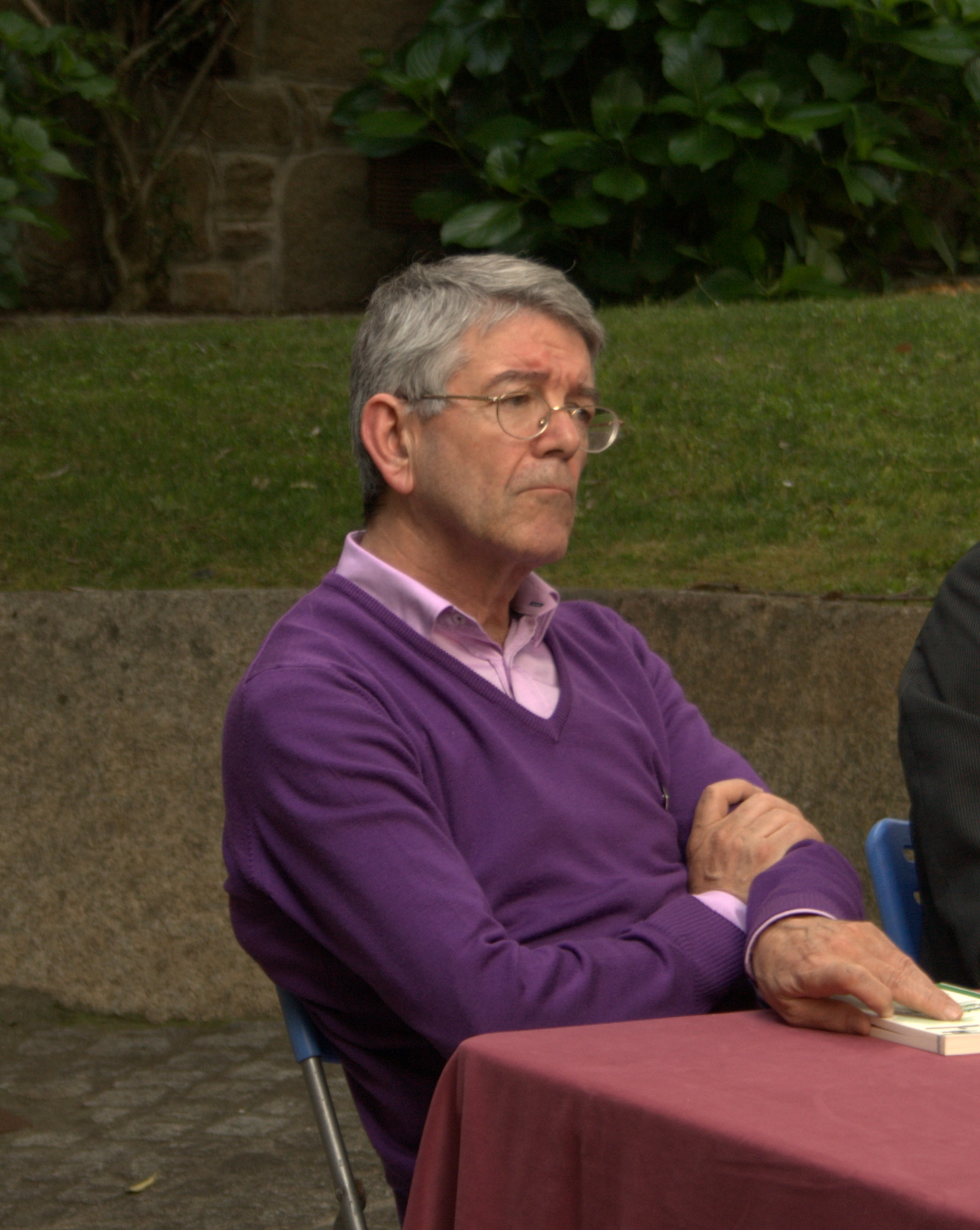 Portrait of Xavier Senín, Galician translator. Taken in Cambados.